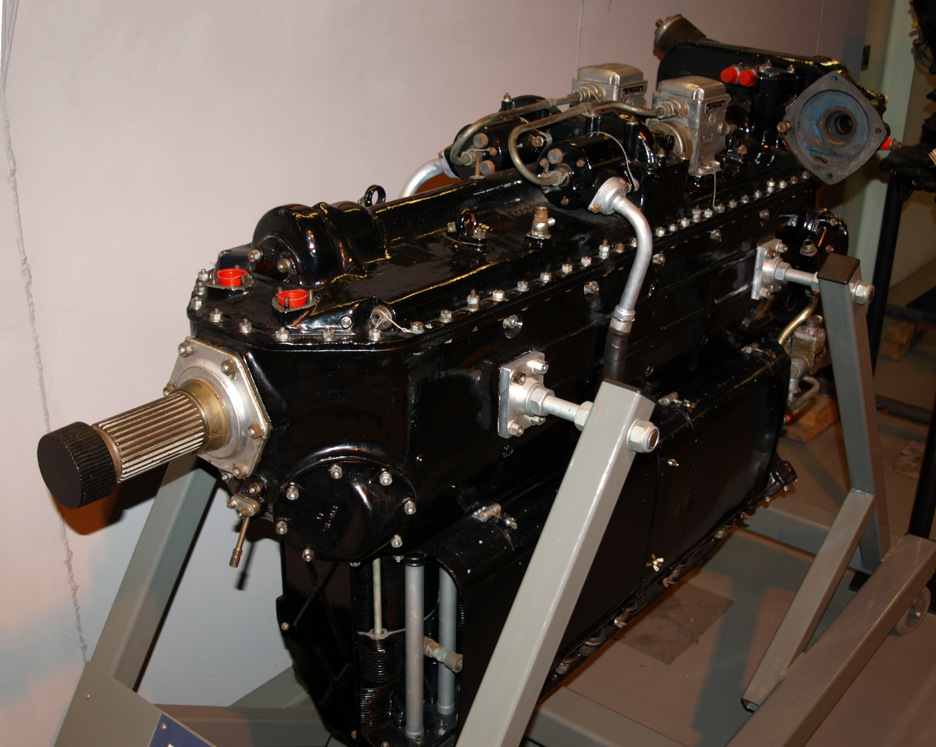 de Havilland Gipsy Queen 30 aero engine on display at the Fleet Air Arm Museum, RNAS Yeovilton.